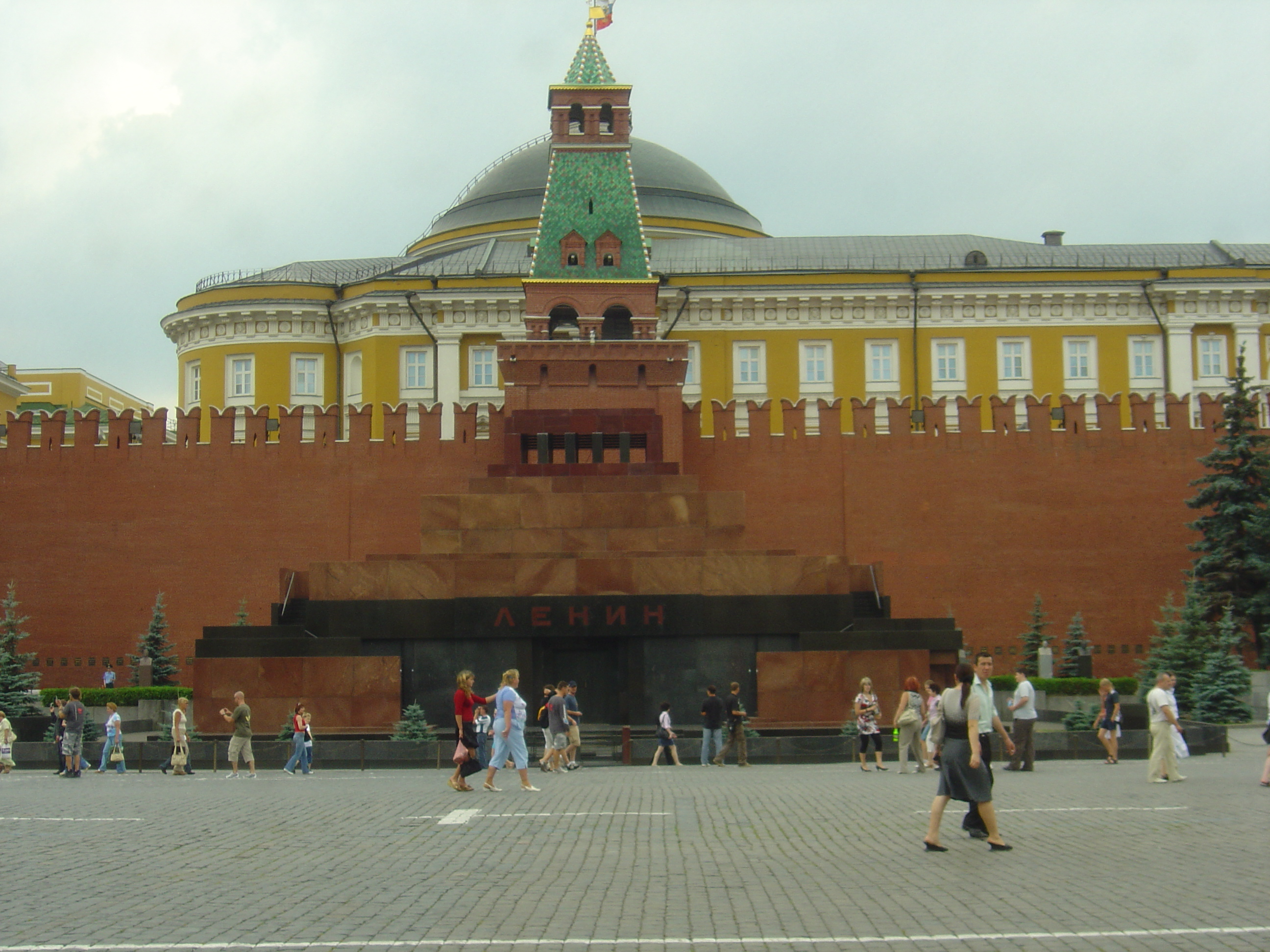 Kremlin Wall Necropolis & Lenin' s Mausoleum, Moscow 2007